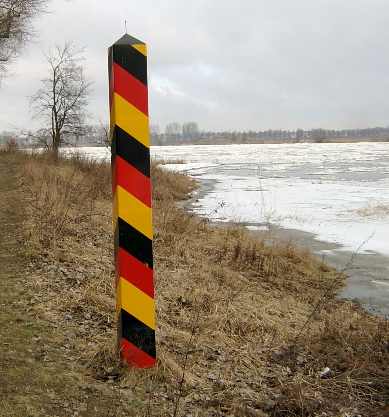 Border marker on island Ziegenwerder in Frankfurt (Oder), Brandenburg, Germany